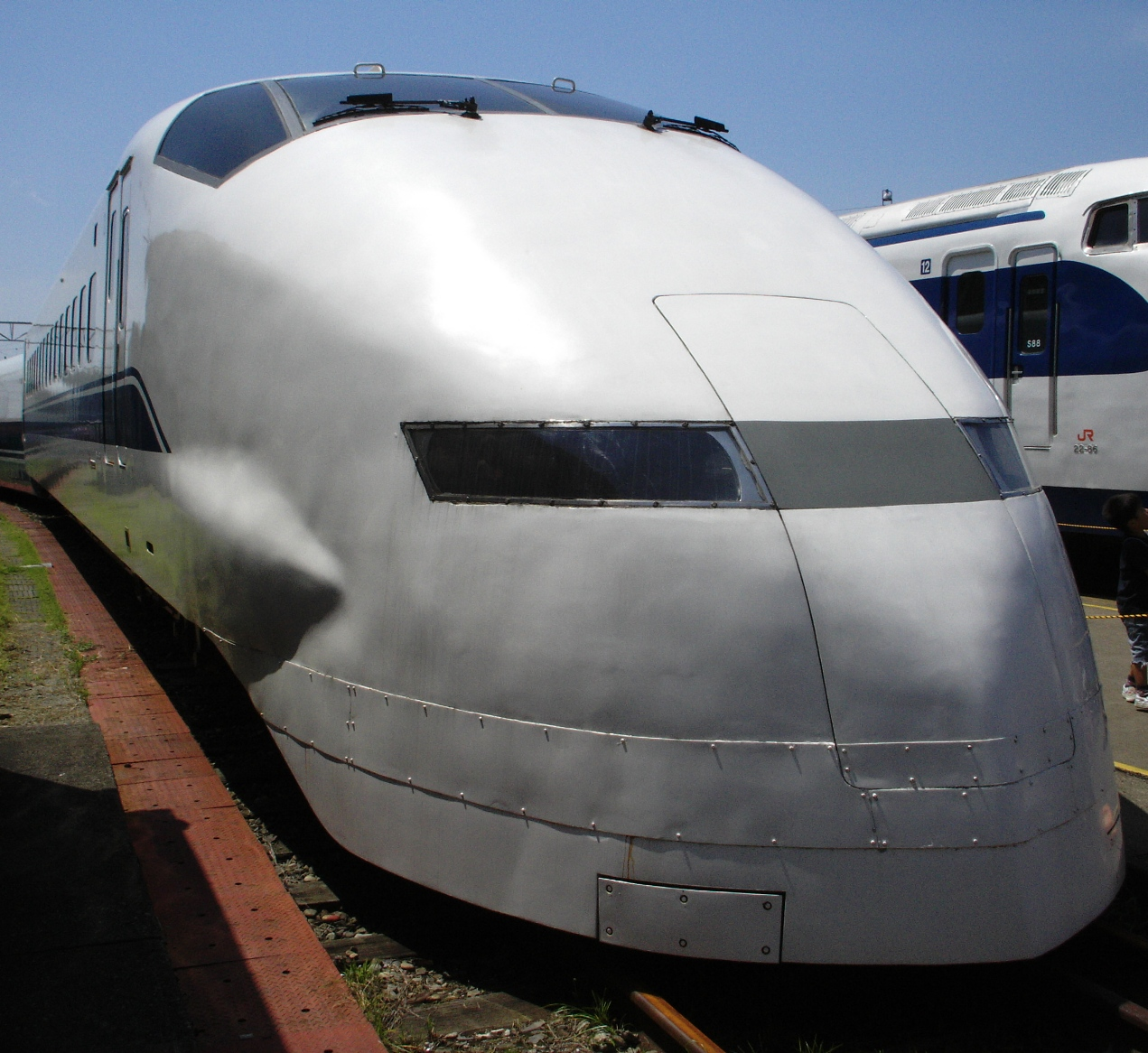 Preserved car 322-9001 of former JR Central 300 series prototype set J1 at Hamamatsu Works Open Day, 22 July 2007